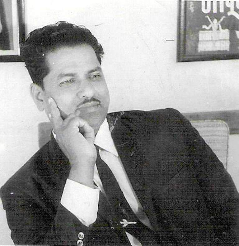 Magician Raghuvir in his School of Magic